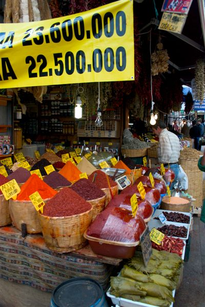 Author: David Bjorgen